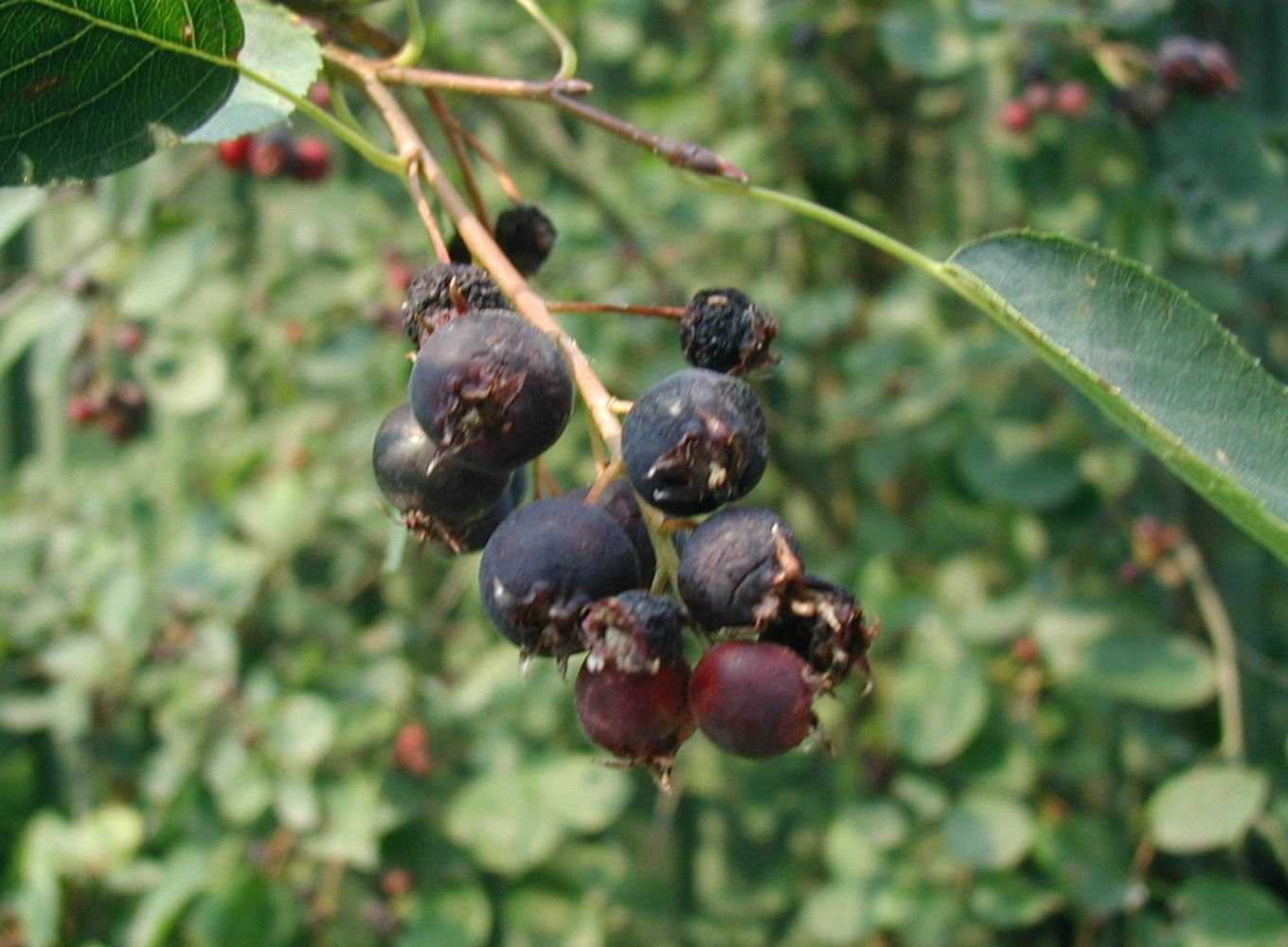 Amelanchier spicata: Berries